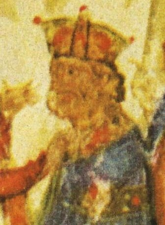 Nicephorus I Logothetes.